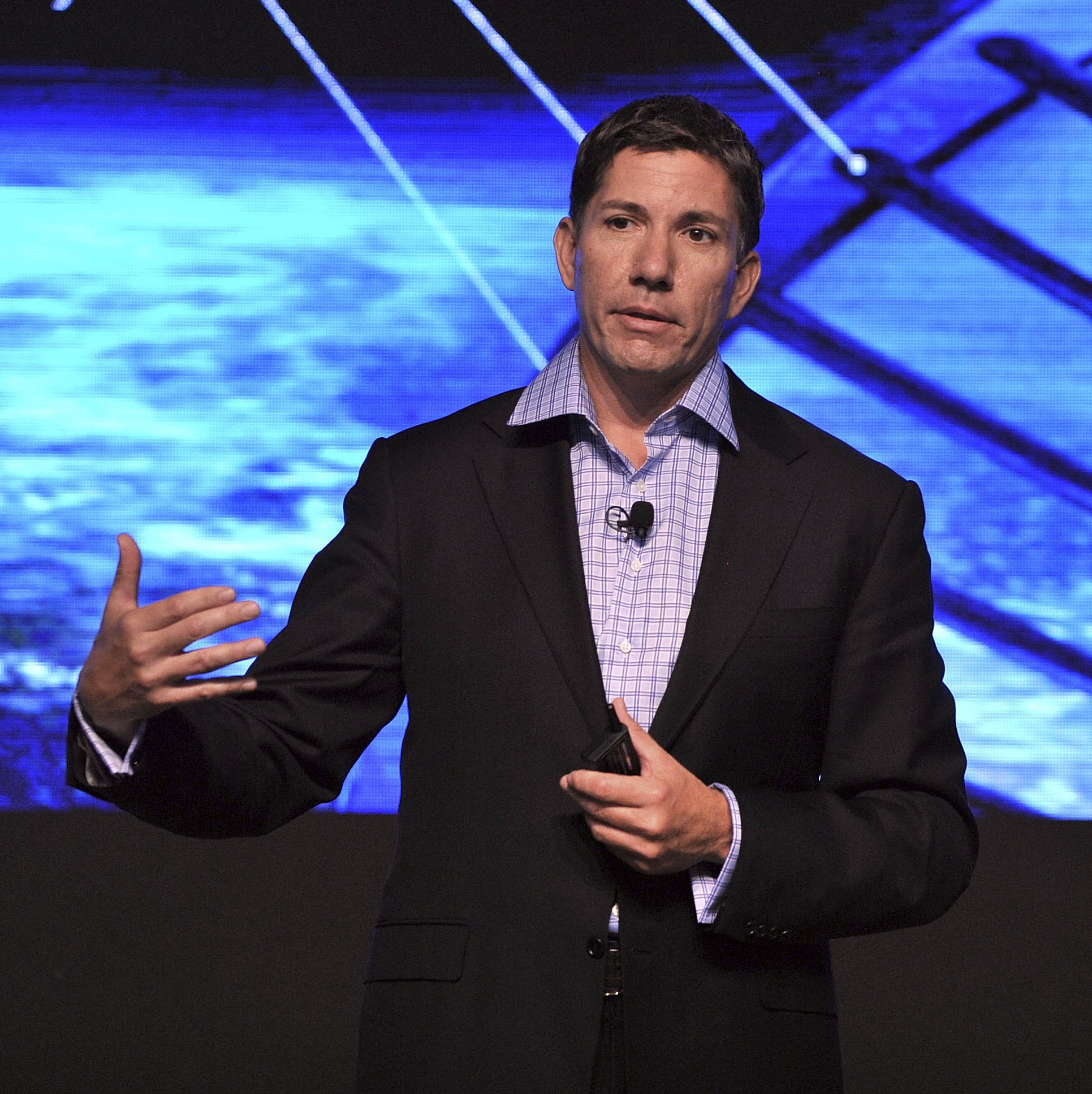 Gary Kovacs, Chief Executive Officer, Mozilla, USA at the Annual Meeting of the New Champions in Tianjin, China 2012